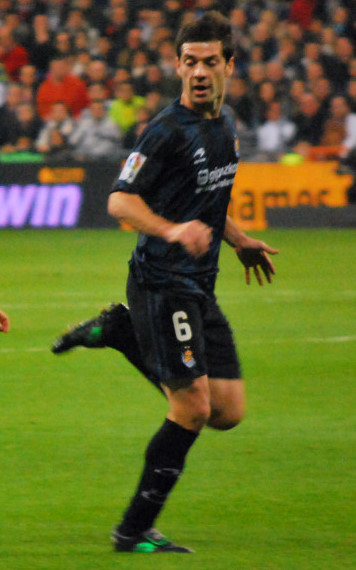 Spanish-Basque football player Mikel Labaka while playing for Real Sociedad